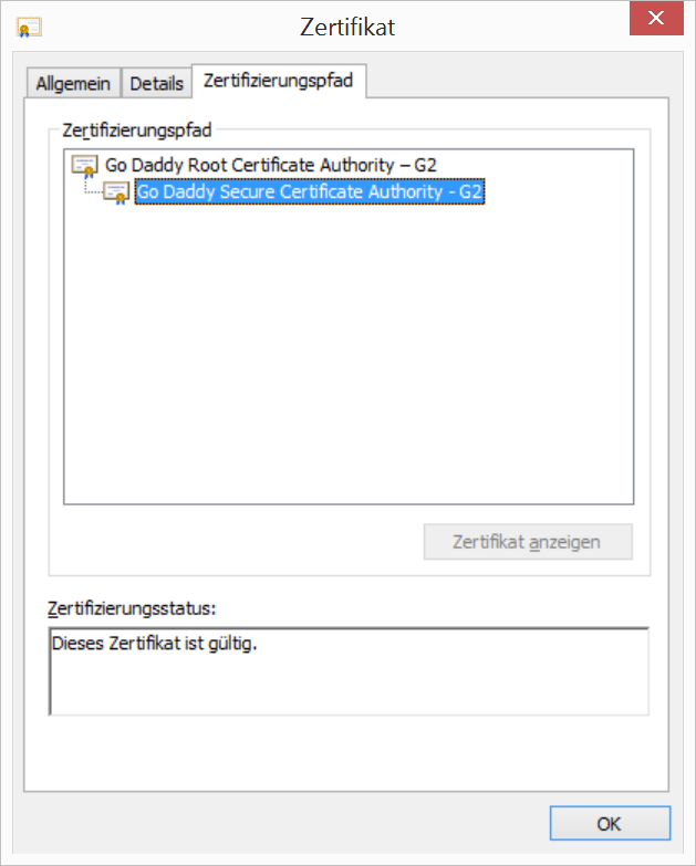 Screenshot showing a certificate chain in Microsoft Windows.